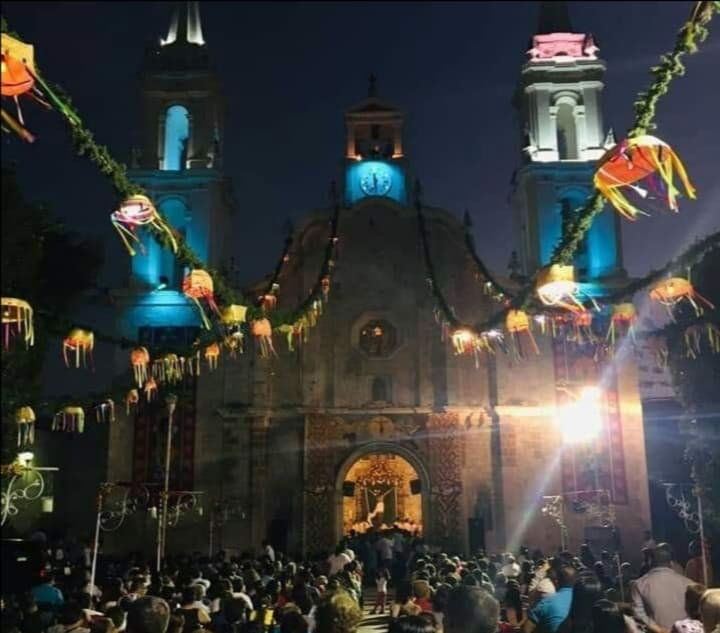 Main church of Zumpango del Rio Nāhuatl: teopantli Zumpango del Rio